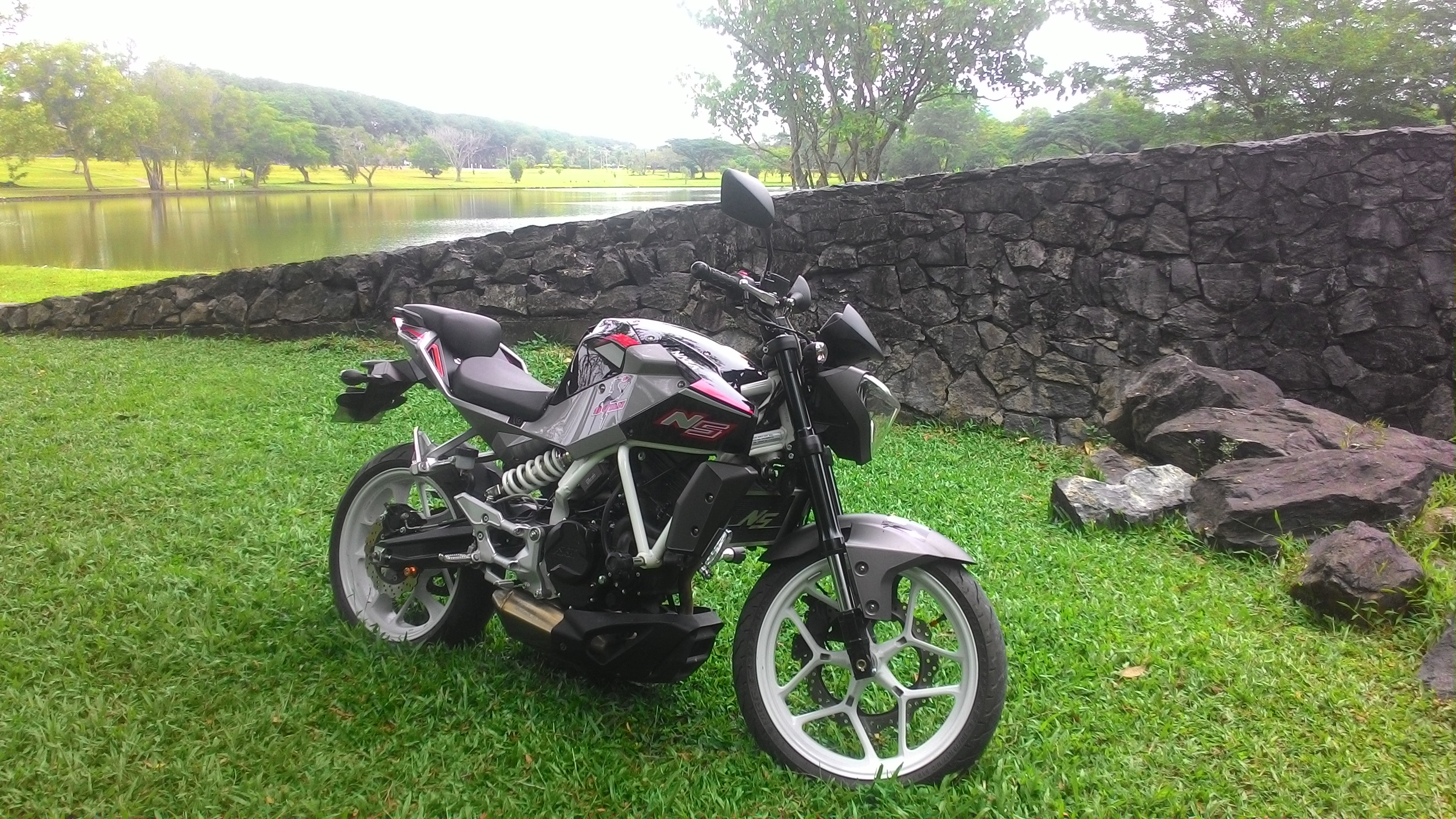 Edgar Devon's GD250N